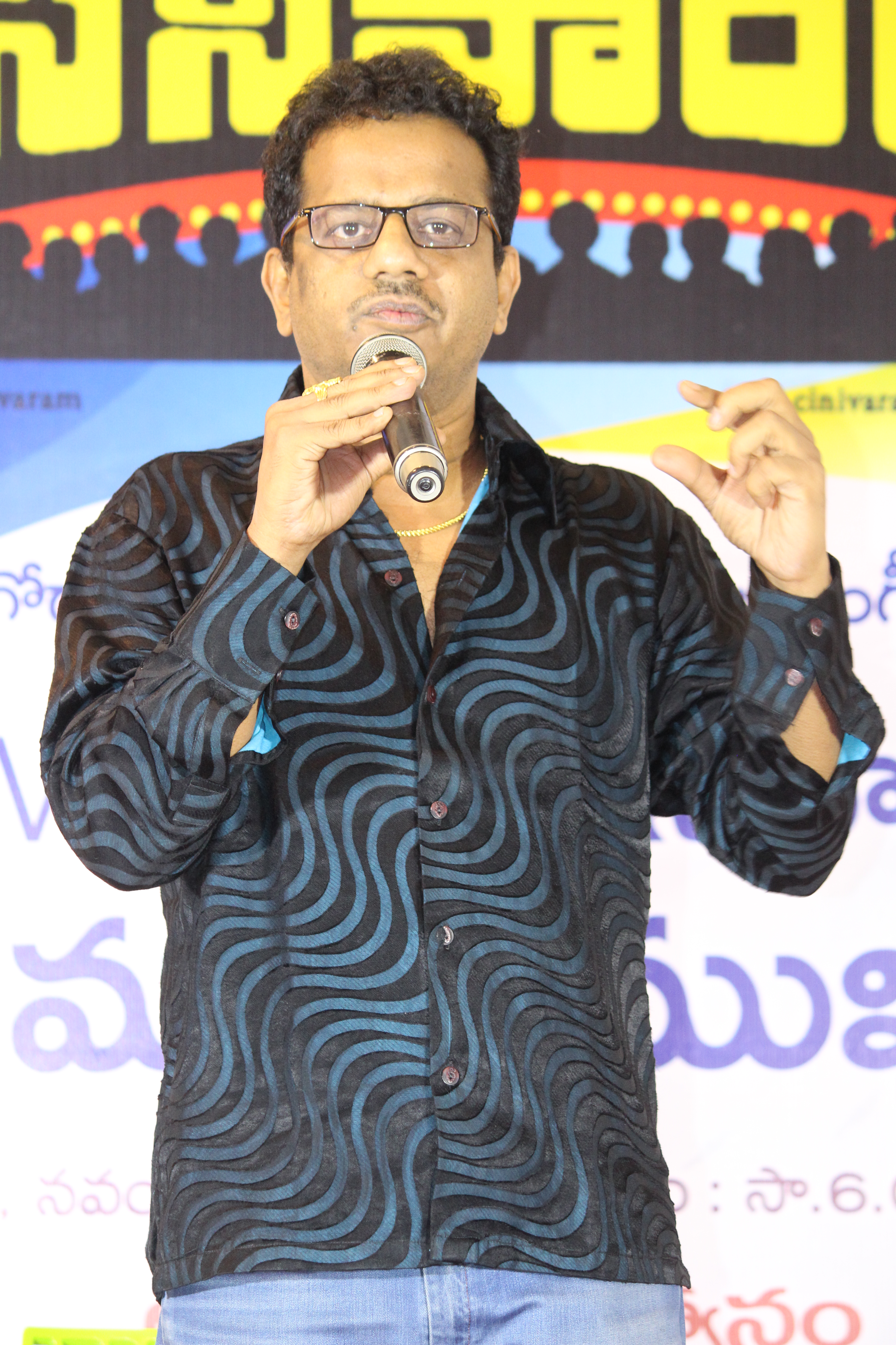 K.M. Radha Krishnan in Cinivaram, Ravindra Bharathi, Hyderabad